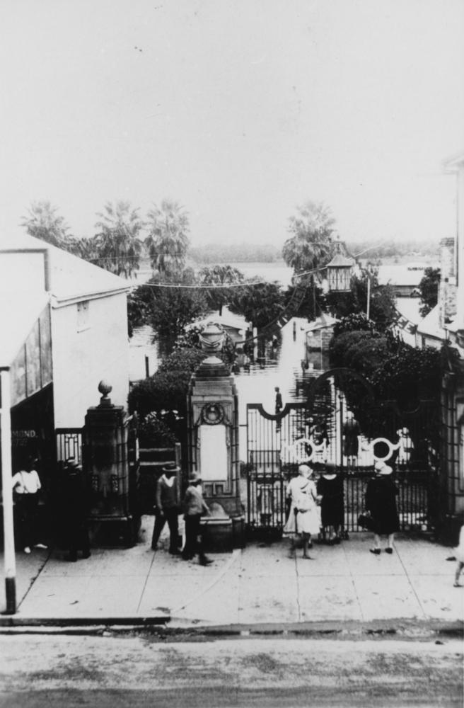 Gympie Memorial Park under flood during 1931. Floodwaters in the Gympie Memorial Park near the entrance gates. Gympie is a city in south-eastern Queensland, situated on the Mary River about 162 kilometres north of Brisbane. Gympie is the centre of an important dairying and agricultural district. In the early days timber was a significant industry. In 1867 James Nash found nuggets of gold in the bed of a dry gully in the district and a spectacular gold rush commenced. Gympie was originally called Nashville after the discoverer of the gold. In 1868 the name was altered to Gympie, an aboriginal term for the stinging trees found in the district. The discovery of gold proved the salvation of Queensland as, at that time, the colony was passing through financial difficulties. The largest mine was the Scottish Gympie which worked at levels from 650 to over 800 metres deep, and had underground roadways exceeding 50 kilometres in length. In 1909 fifty-one mining companies were operating. A huge nugget of pure gold, called the Curtis nugget was found in the Gympie district. It weighed about 18 kilogrammes. The gold petered out in the 1920's. (Information taken from: The Australian Encyclopaedia and Explore Australia, 2003, Sydney Australia, Penguin Australia.